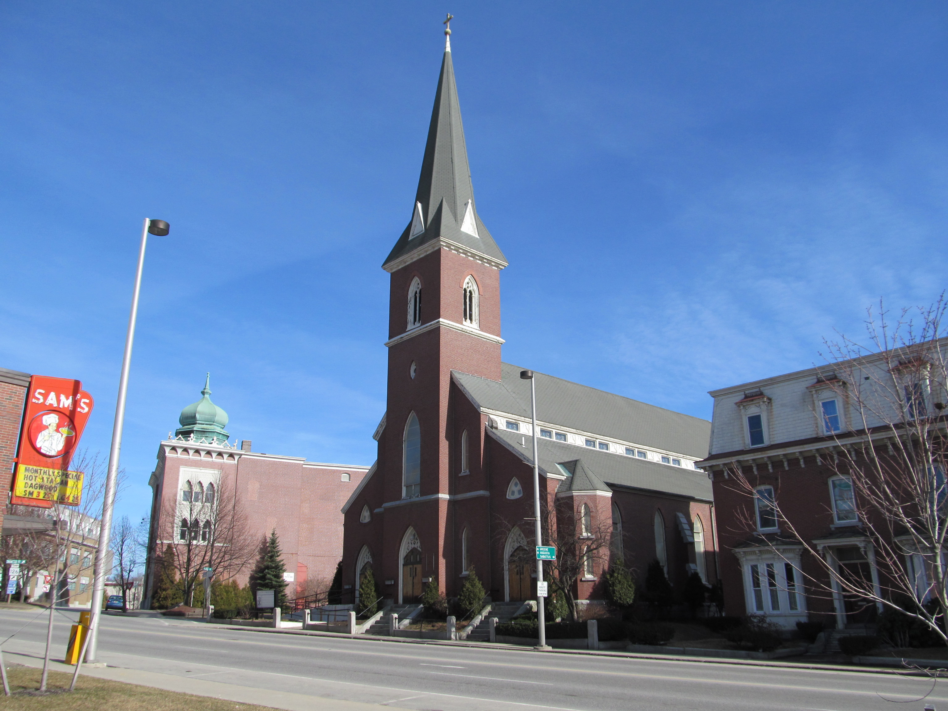 St. Josephs Catholic Church, Lewiston Maine